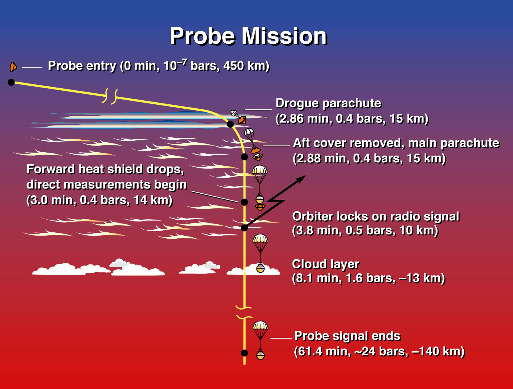 Galileo atmospheric probe mission